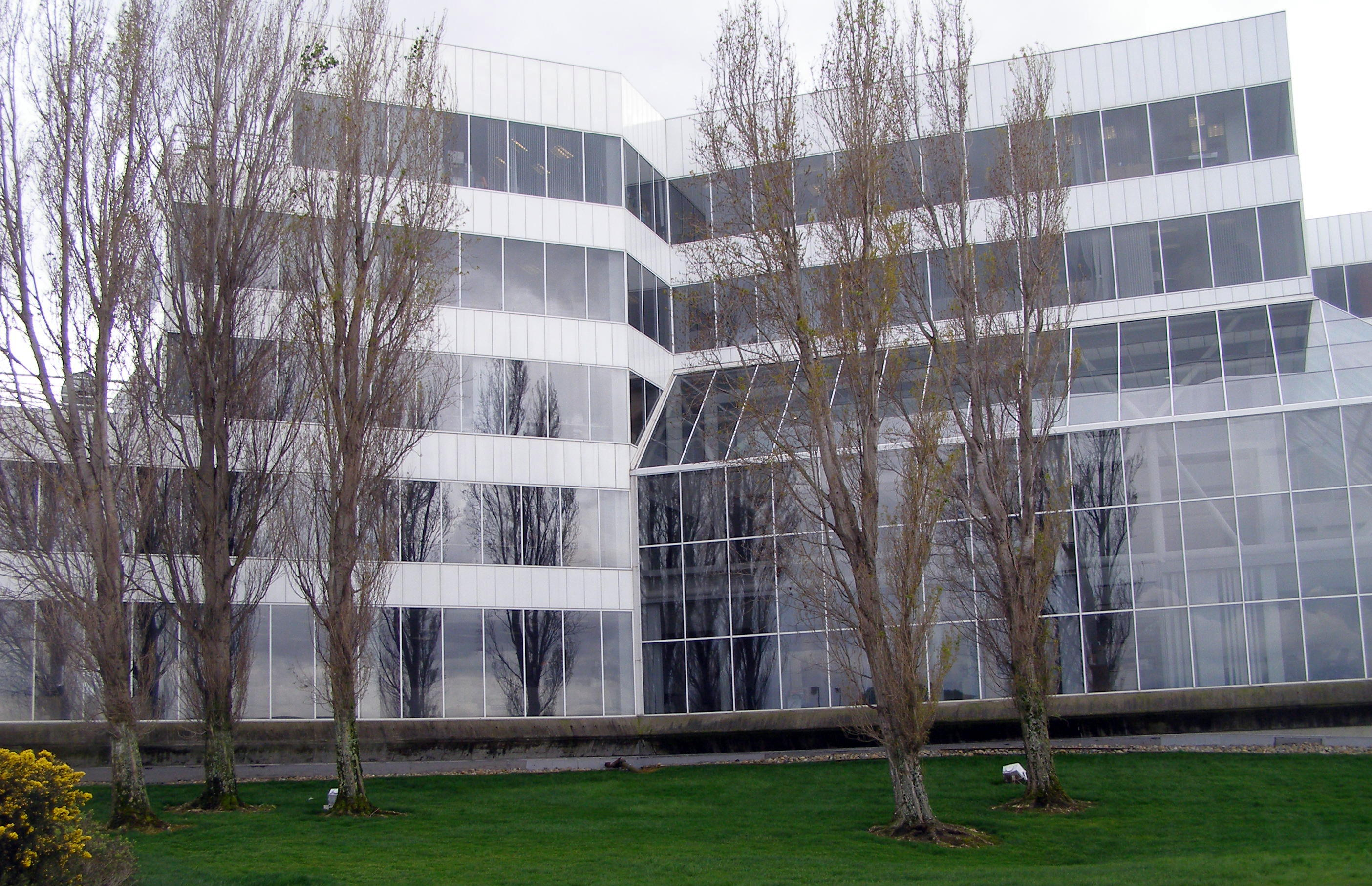 i took this photo in the spring of 2006 of the dakin bldg viewed from the sf bay shoreline trail, and i release all rights.